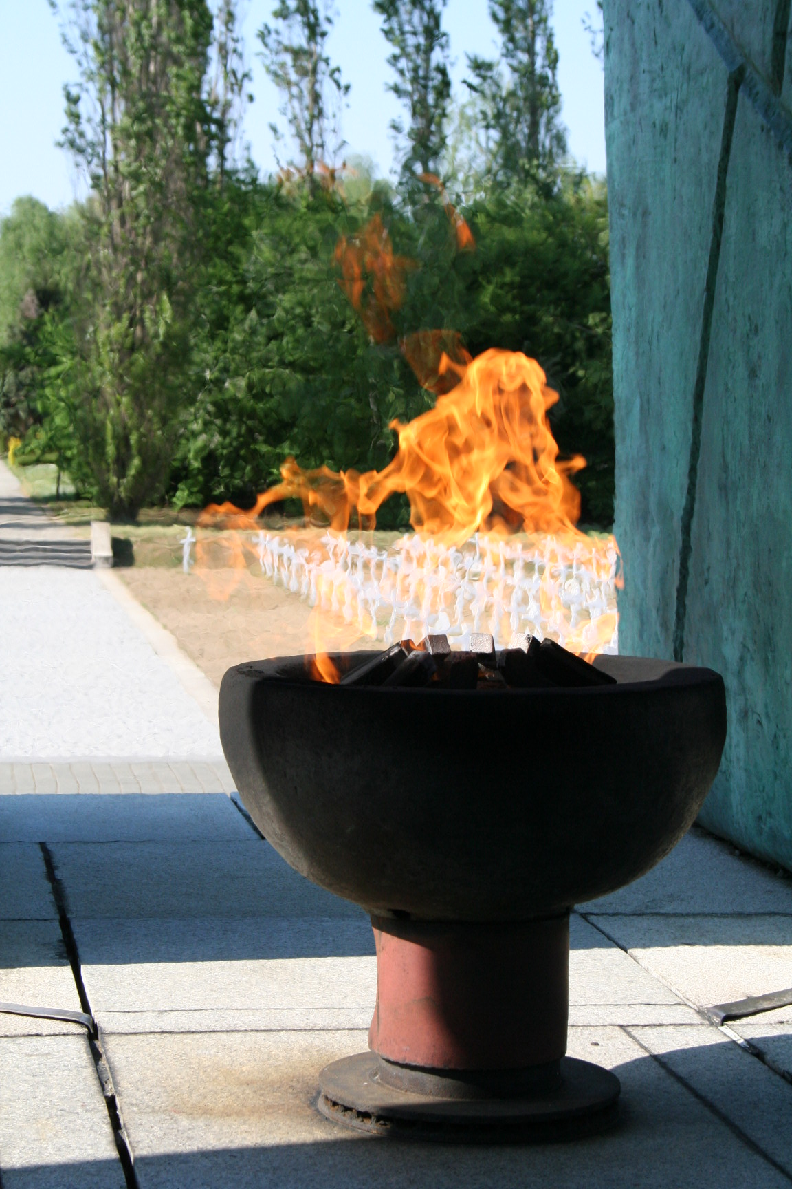 Vukovar Memorial Cemetery – The Eternal Flame for the victims – Close-up.